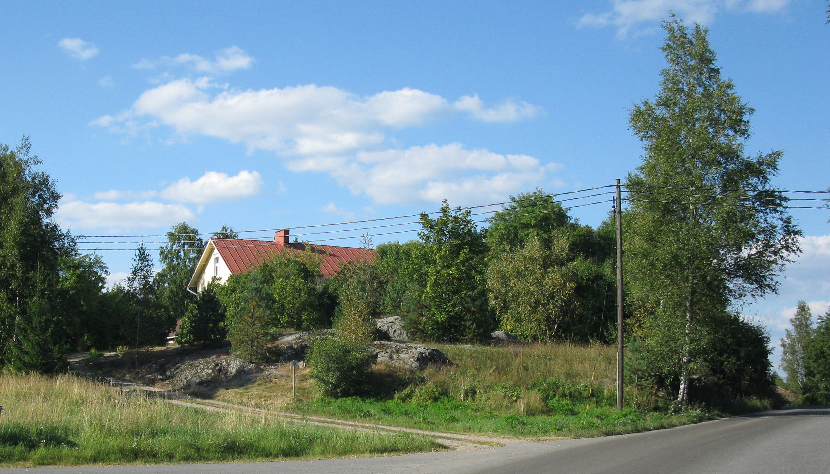 The historical site of the village Jaatila in Somero, Finland.